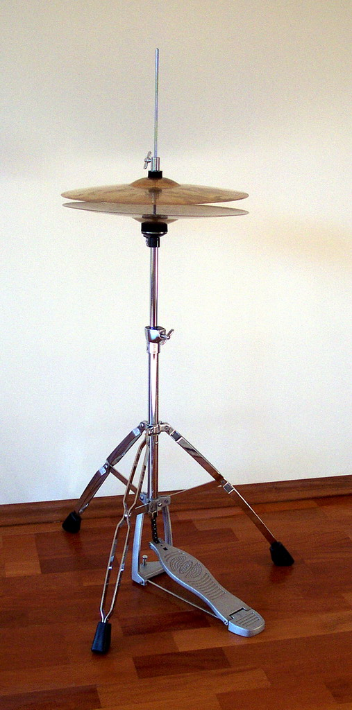 Example of ready-to-play hi-hat